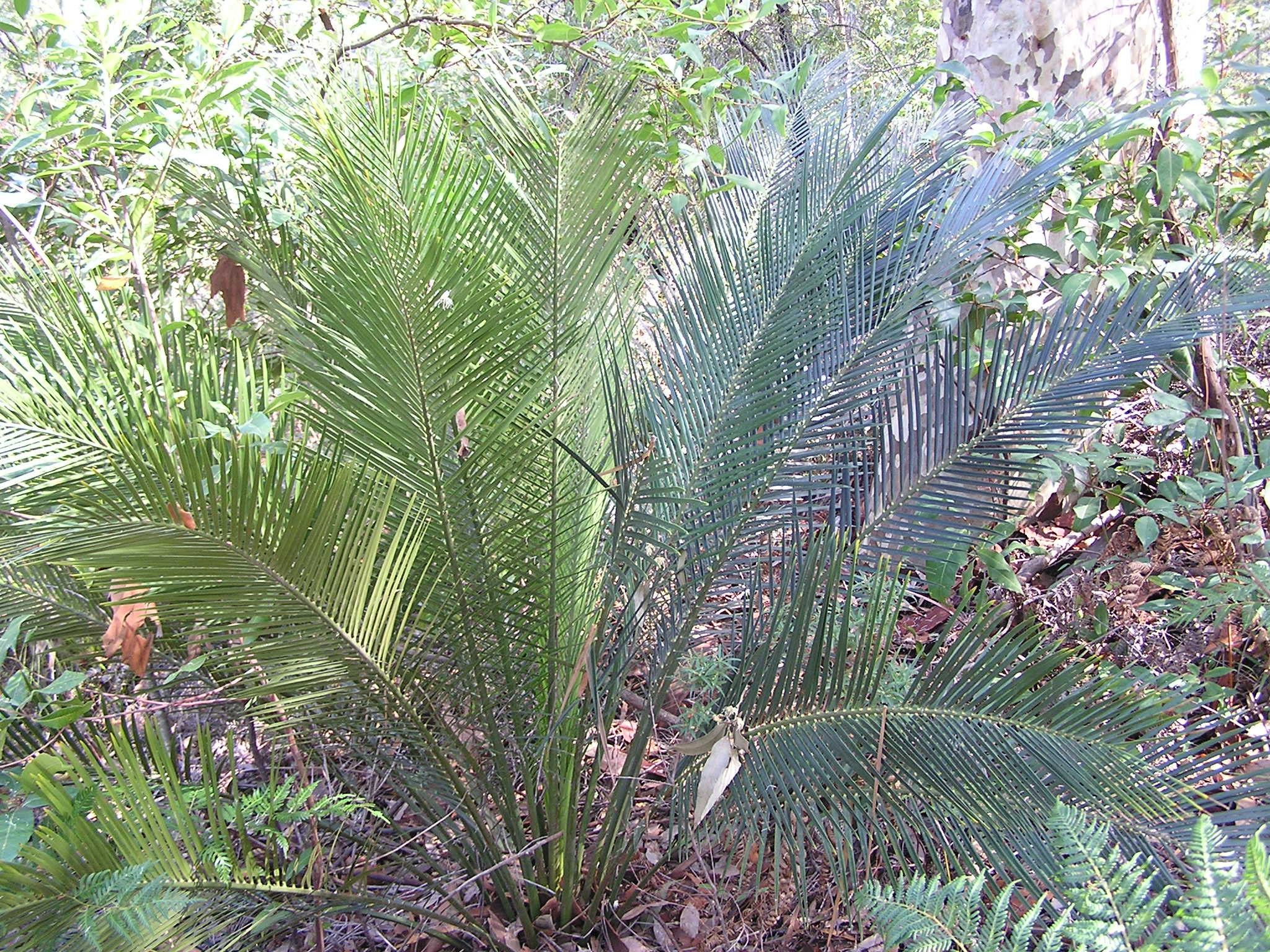 Macrozamia communis or burrawang, a cycad of the family Zamiaceae at Batemans Bay, New South Wales, Australia.